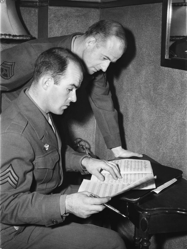 Two son of the family of singers, Rupert and Werner Von Trapp, in military uniform, read a partition.